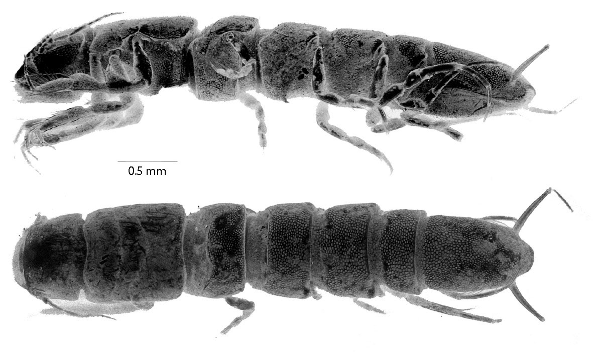 Macrostylis uniformis, holotype female. Digital stack photographs; methylene green staining